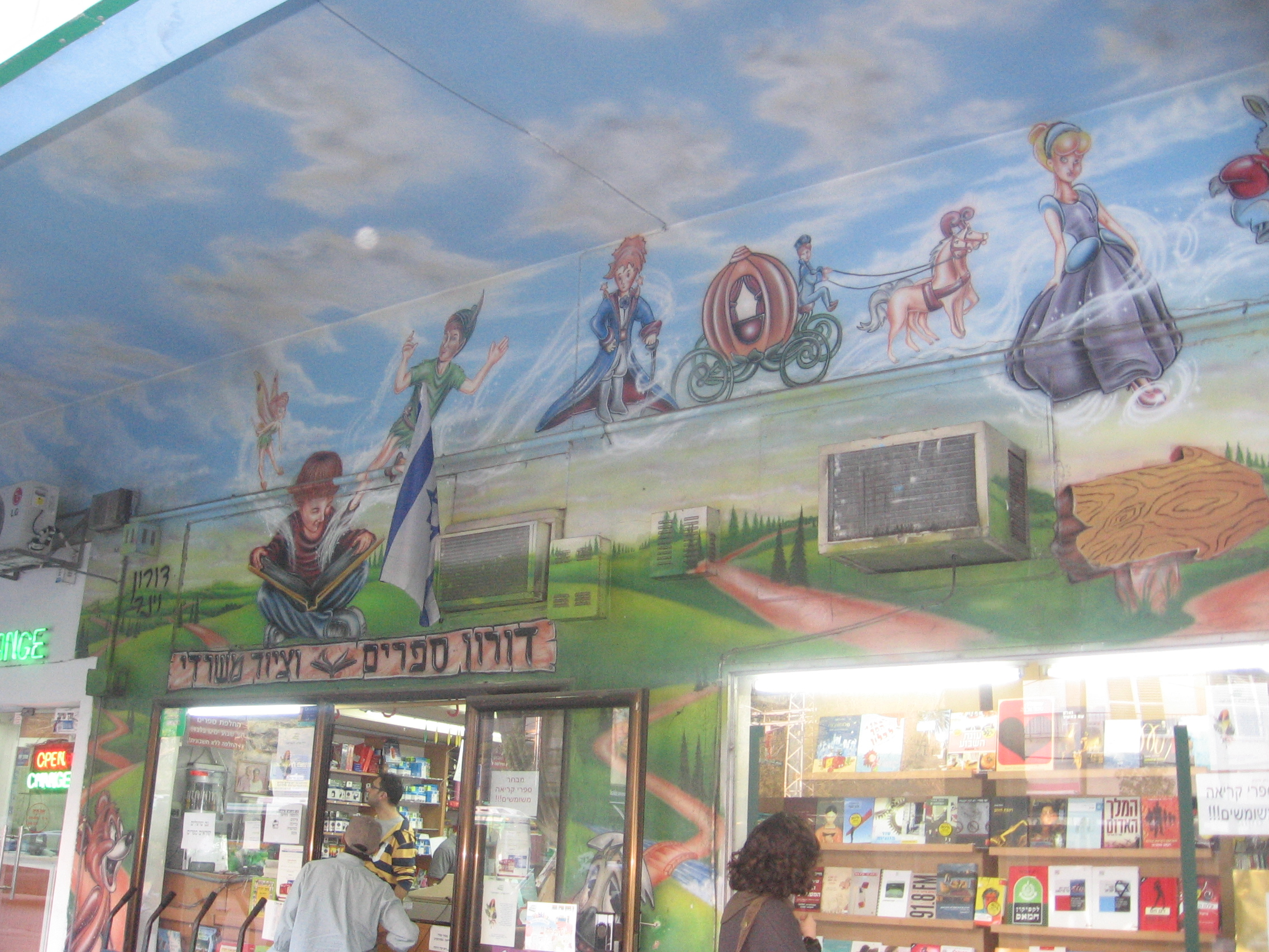 Wall painting by Doron Viner in Tel Aviv.